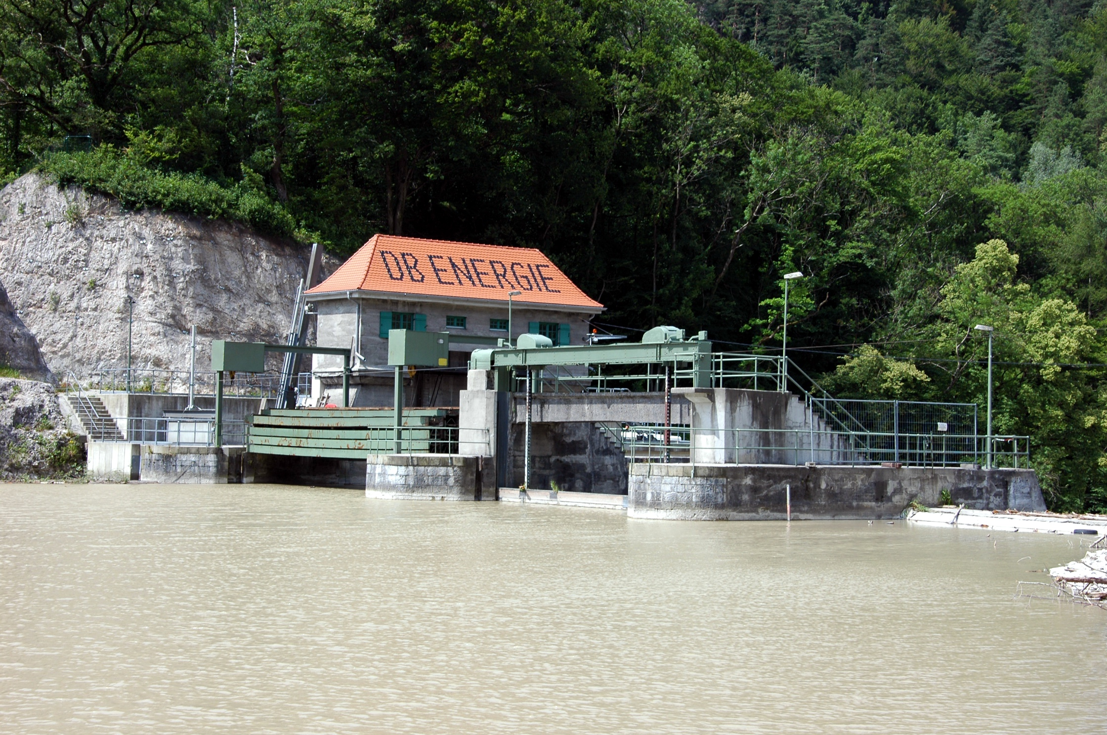 Part of the dam wall (water side) of lake Saalach with the solid masonry weir. A power plant, using the residual water with a vertical Kaplan turbine is situated behind the roofed building.